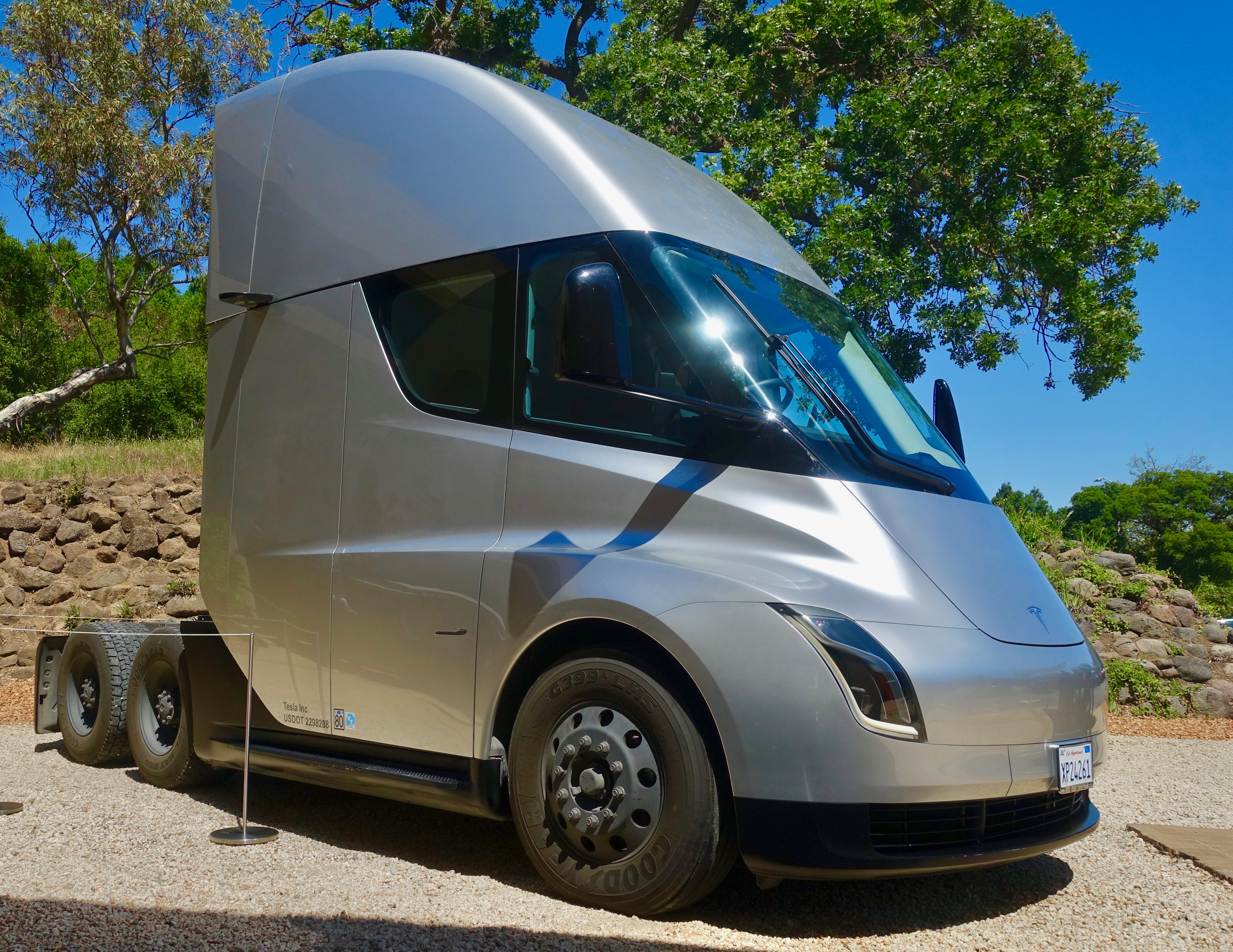 at Tesla HQ today